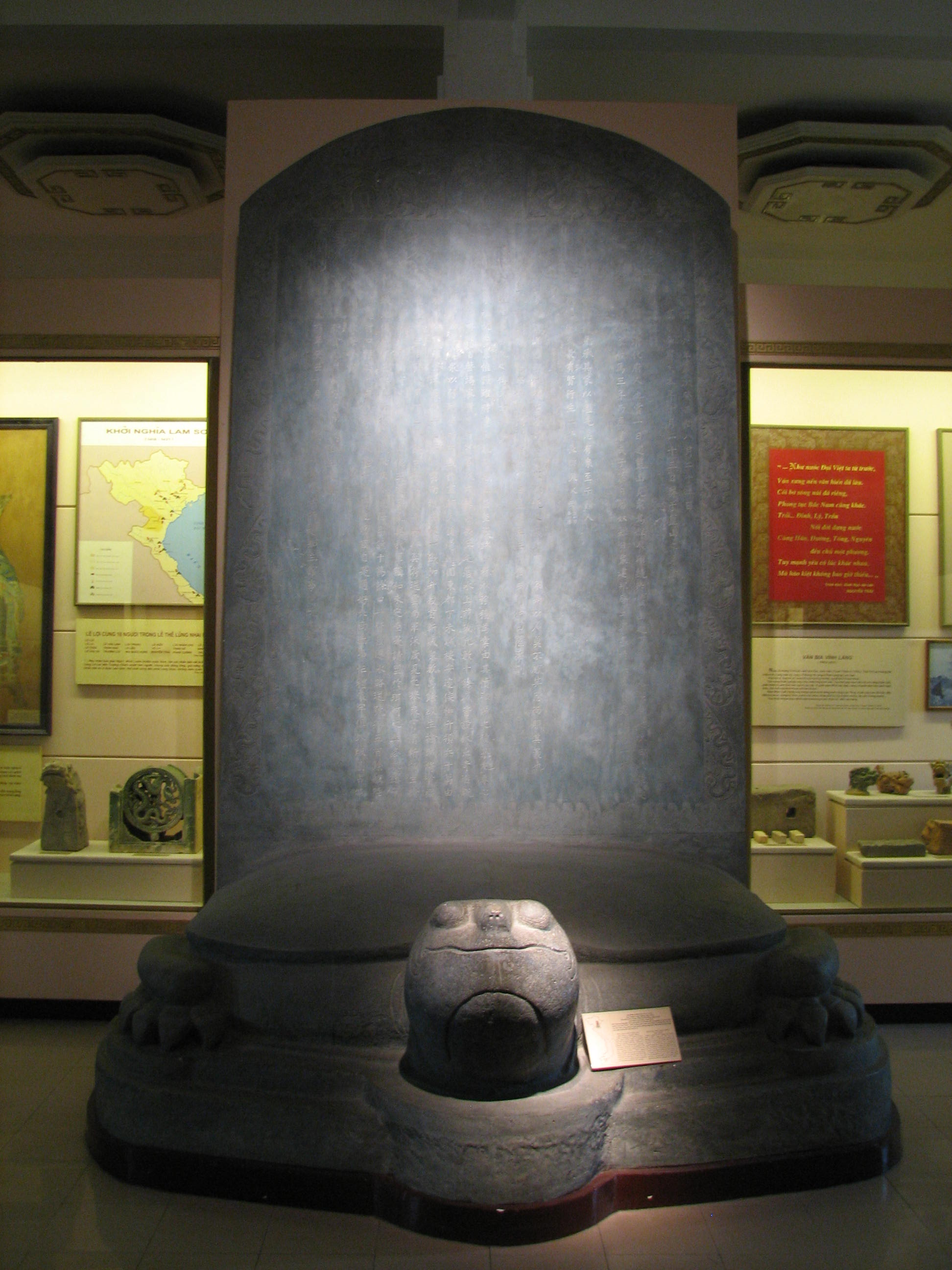 The tortoise-born Vinh Lang stele from the mausoleum of Emperor Le Loy. Now in a museum in Hanoi